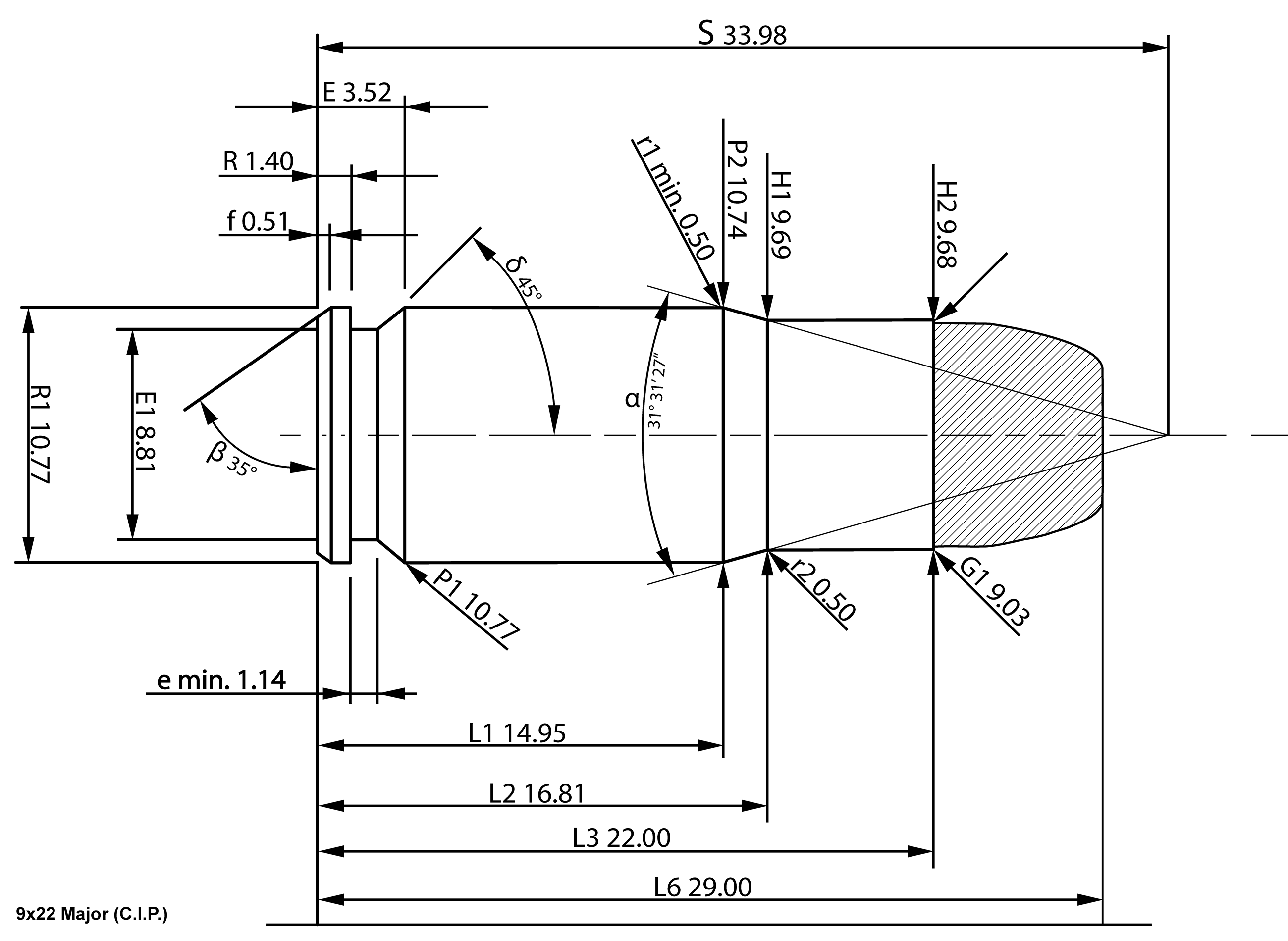 9x22 Major C.I.P. cartridge dimensions. All sizes in millimeters (mm).